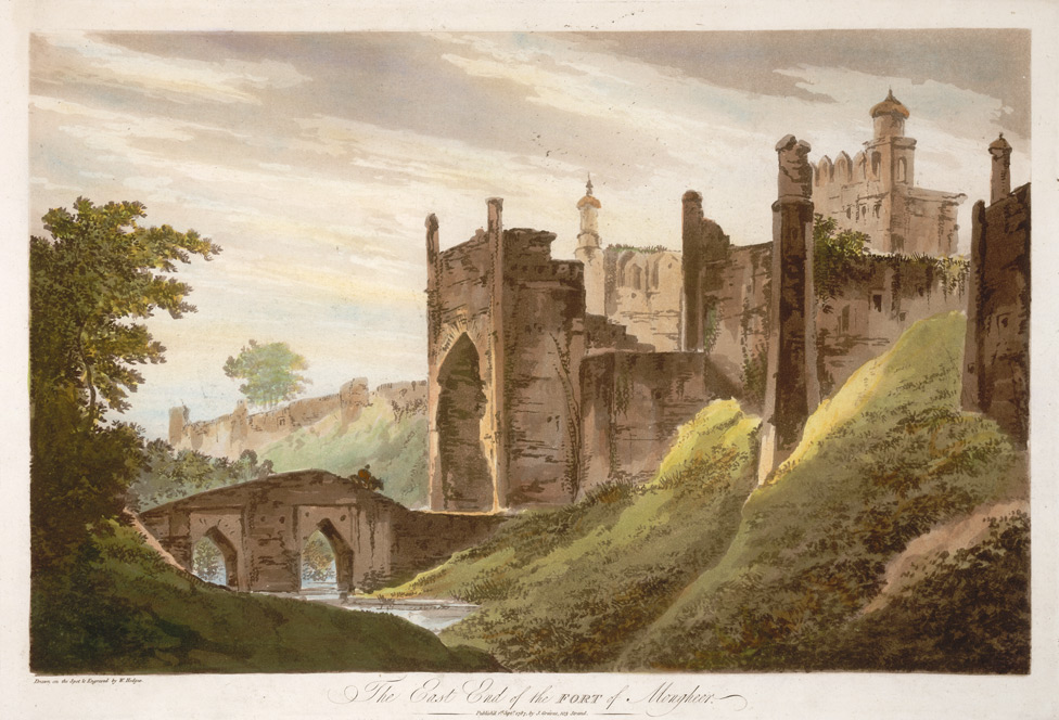 The East End of the Fort of Mongheer view 2